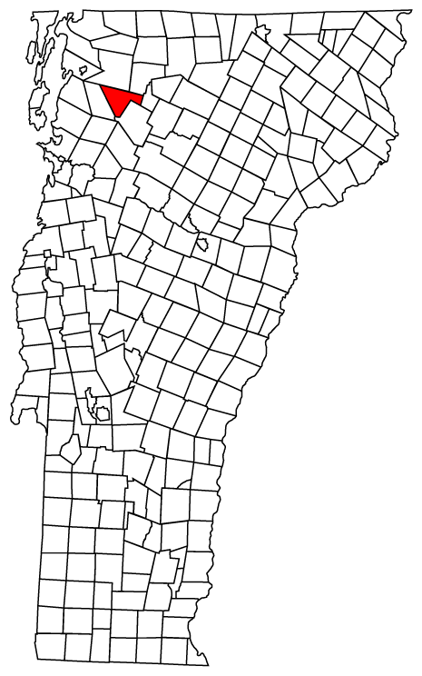 Map of Vermont towns with Fletcher highlighted